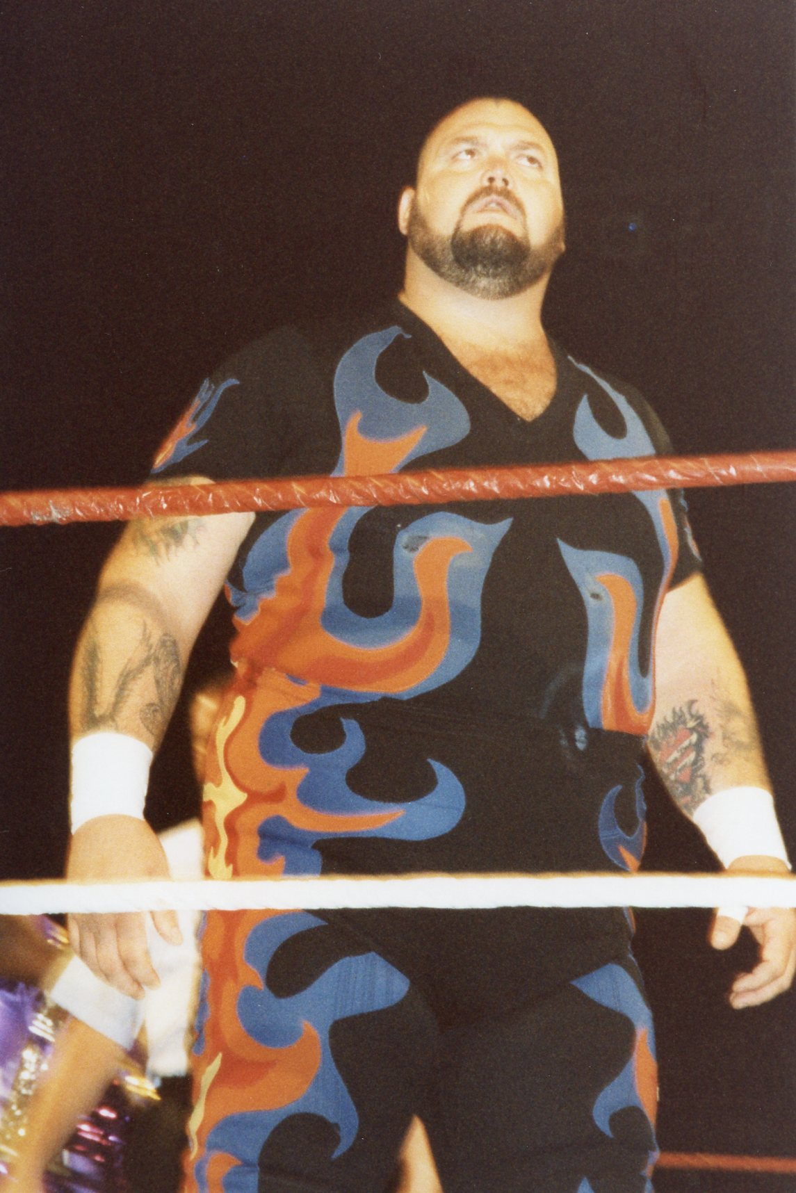 Bam Bam Bigelow prepares for a match at the London's Wembley Arena. Originally taken 9/14/1994.